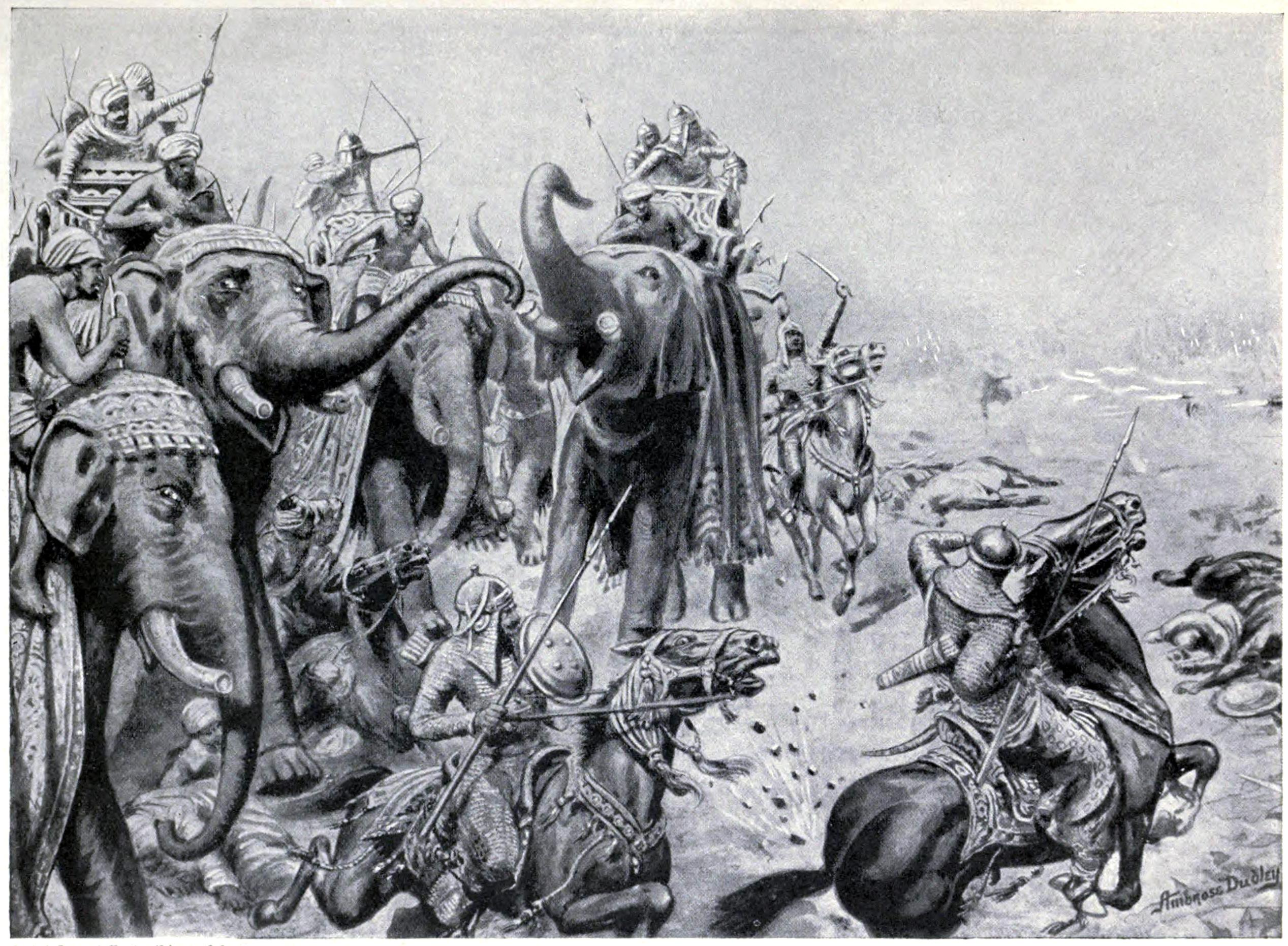 Hutchinson's story of the nations, containing the Egyptians, the Chinese, India, the Babylonian nation, the Hittites, the Assyrians, the Phoenicians and the Carthaginians, the Phrygians, the Lydians, and other nations of Asia Minor.